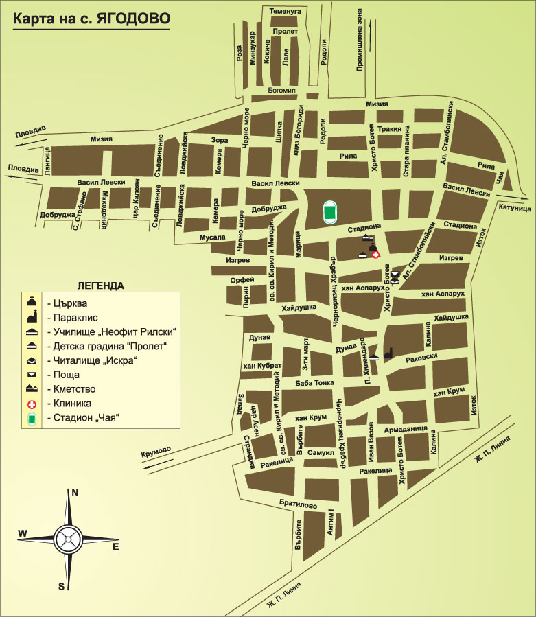 map of Iagodovo, Bulgaria